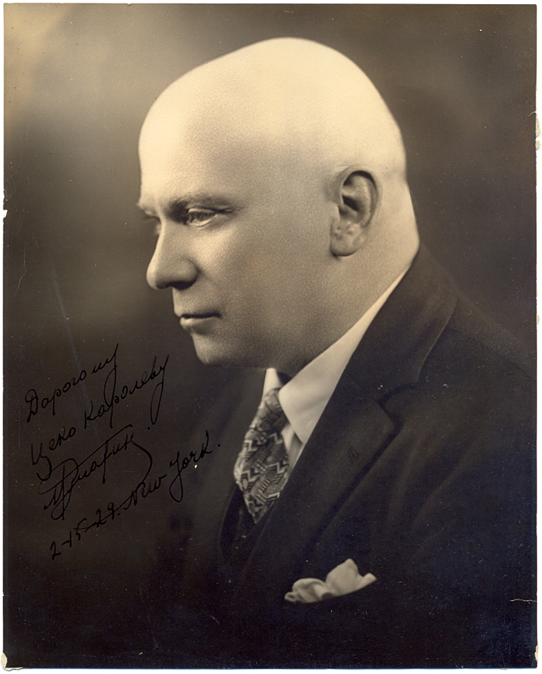 Russian opera conductor, who lived and worked in Bulgaria, Moisei Zlatin (1882-1952). A photo with an autograph and dedication to Bulgarian opera vocalist Tsvetan Karolev